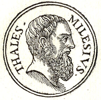 Thales of Miletus (Θαλῆς ὁ Μιλήσιος (pronounced /ˈθeɪliːz/ or "THEH-leez") , ca. 624 BC–ca. 546 BC), was a pre-Socratic Greek philosopher from Miletus in Asia Minor, and one of the Seven Sages of Greece.